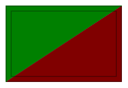 Created by user Puddhe| using photographs and illustrations available on